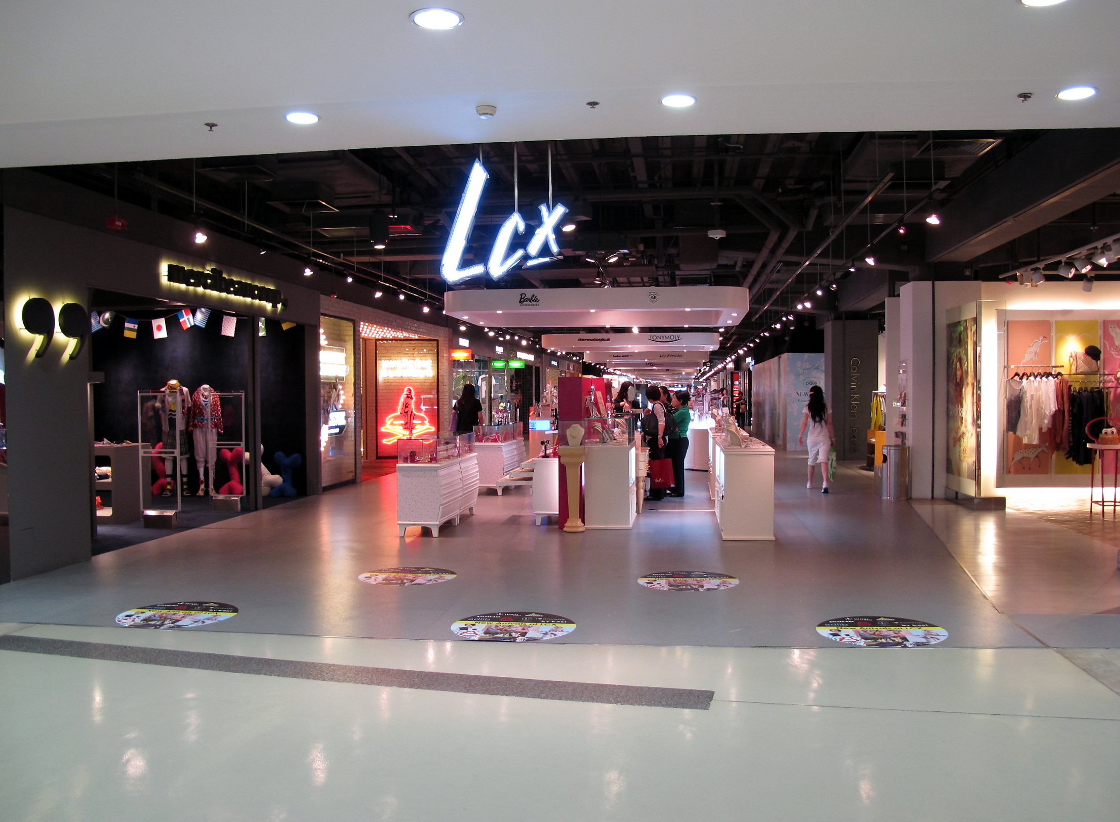 HK Ocean Terminal Level 3 LCX 海運大廈3樓 LCX